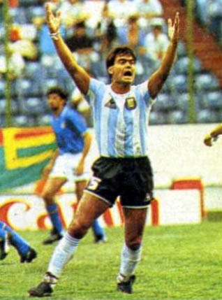 Argentine defender José L. Brown at the World Cup